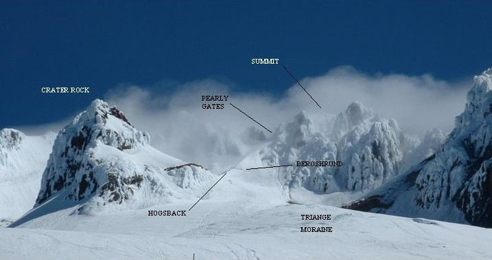 Landmarks along the south side climbing route of Mount Hood. Photo courtesy US Forest Service